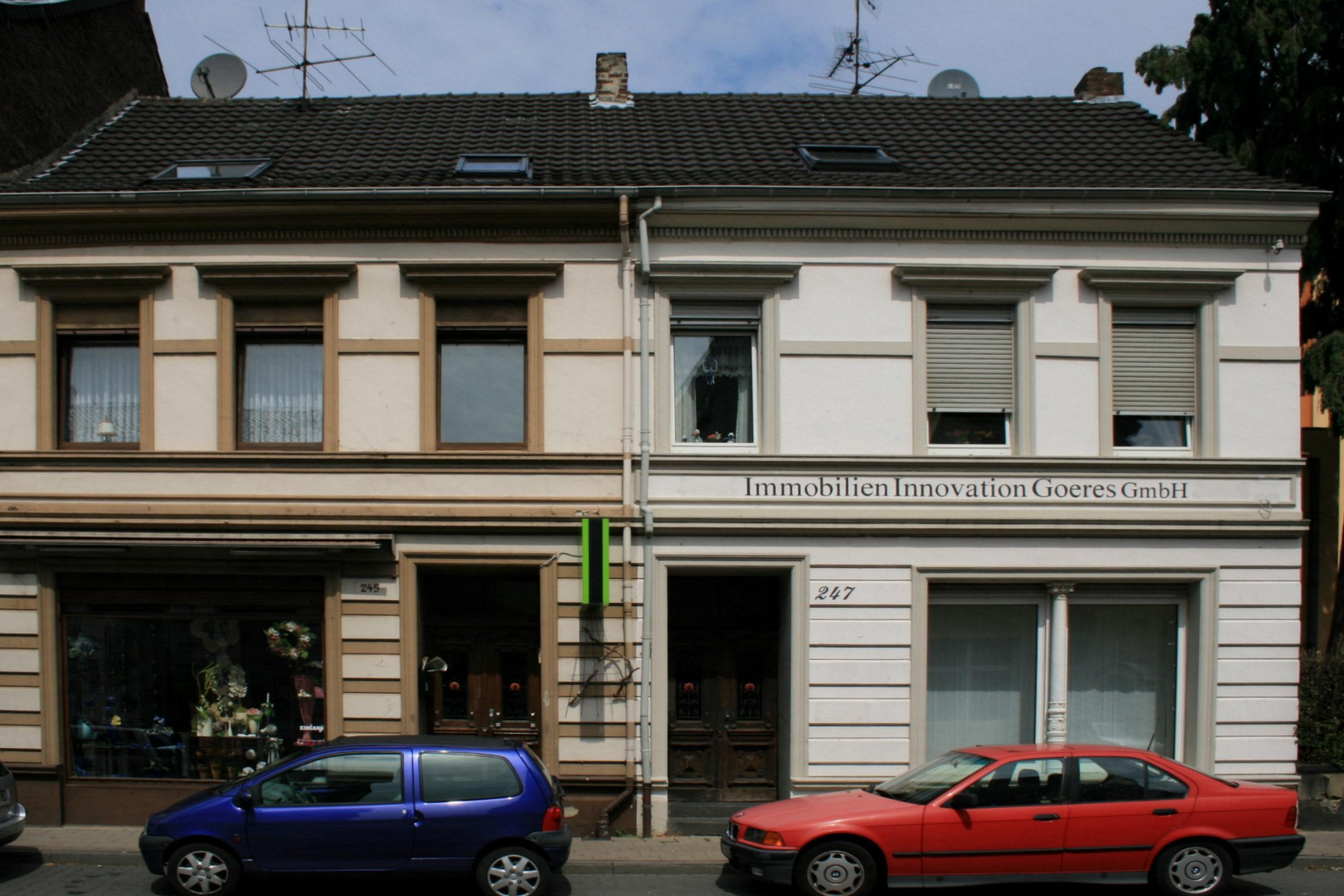 Cultural heritage monument No. H 044 in Mönchengladbach